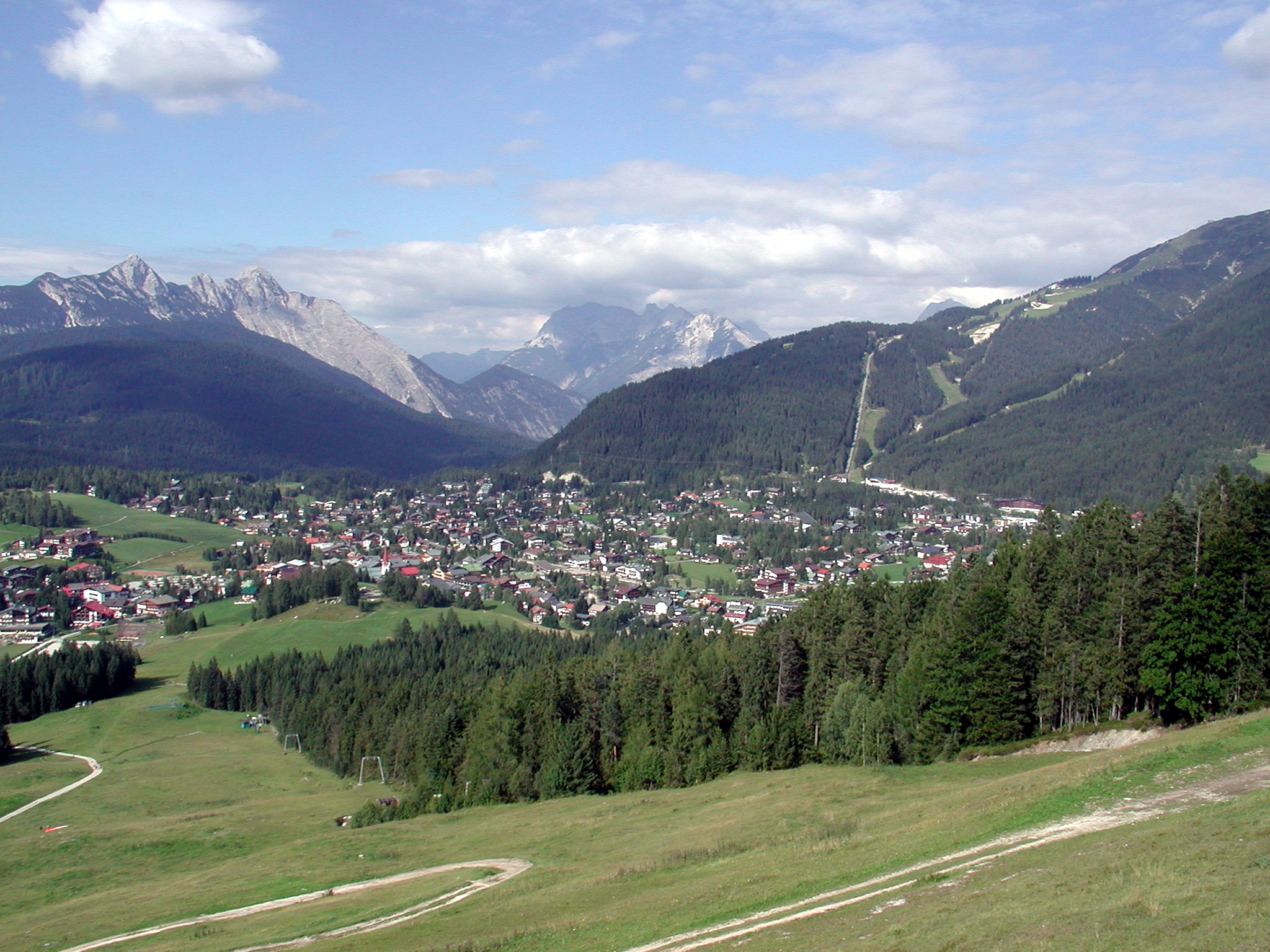 Seefeld in Tirol Austria Made by me, Paolo da Reggio